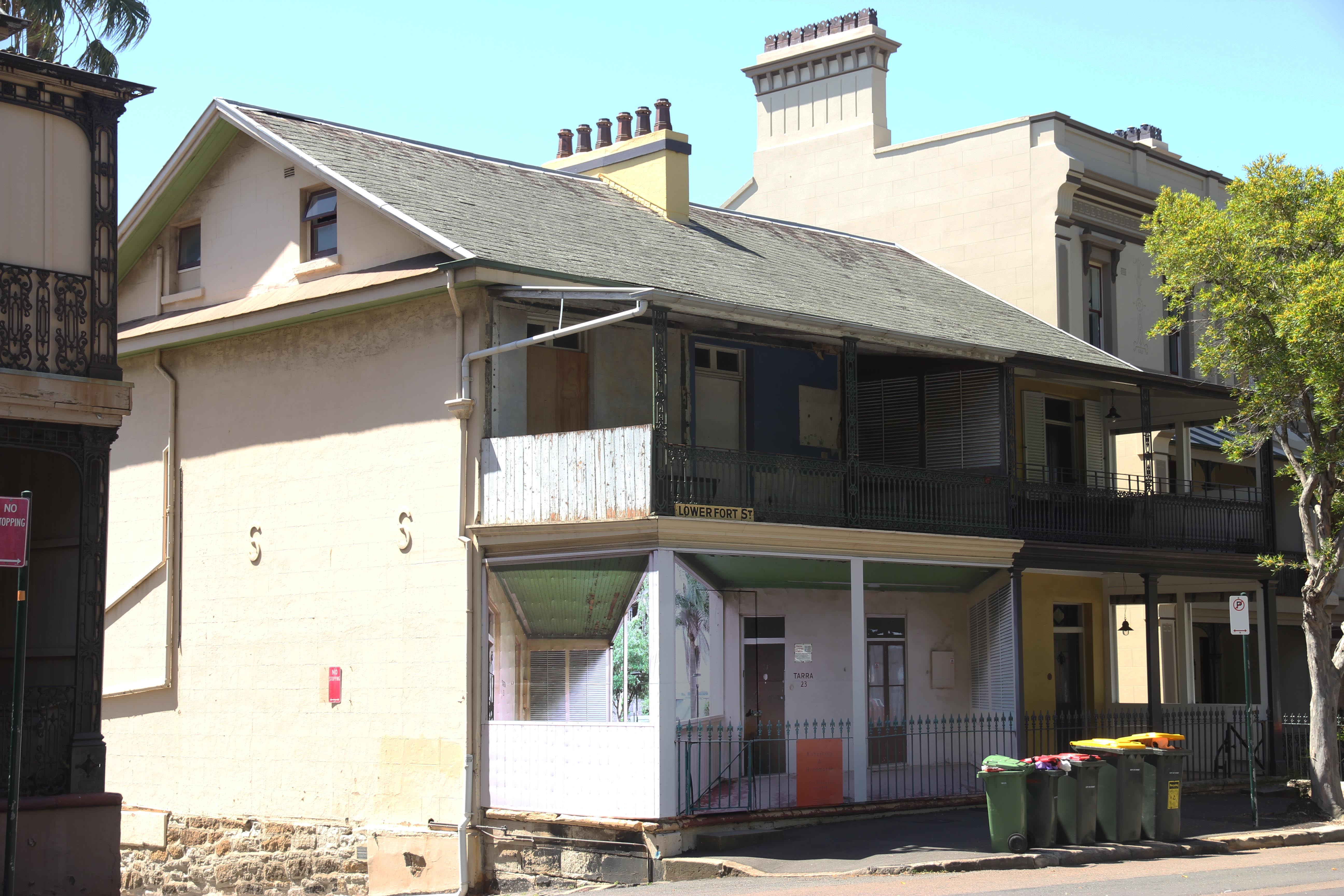 21-23 Lower Fort Street, Millers Point in the City of Sydney, New South Wales, Australia